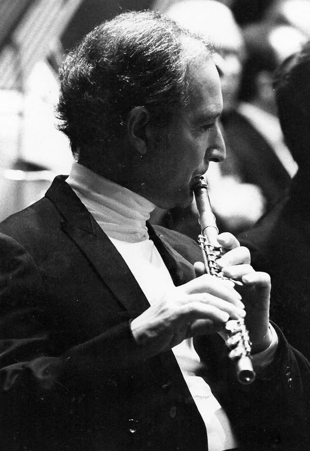 CarlosAugustoHoltremanFranco